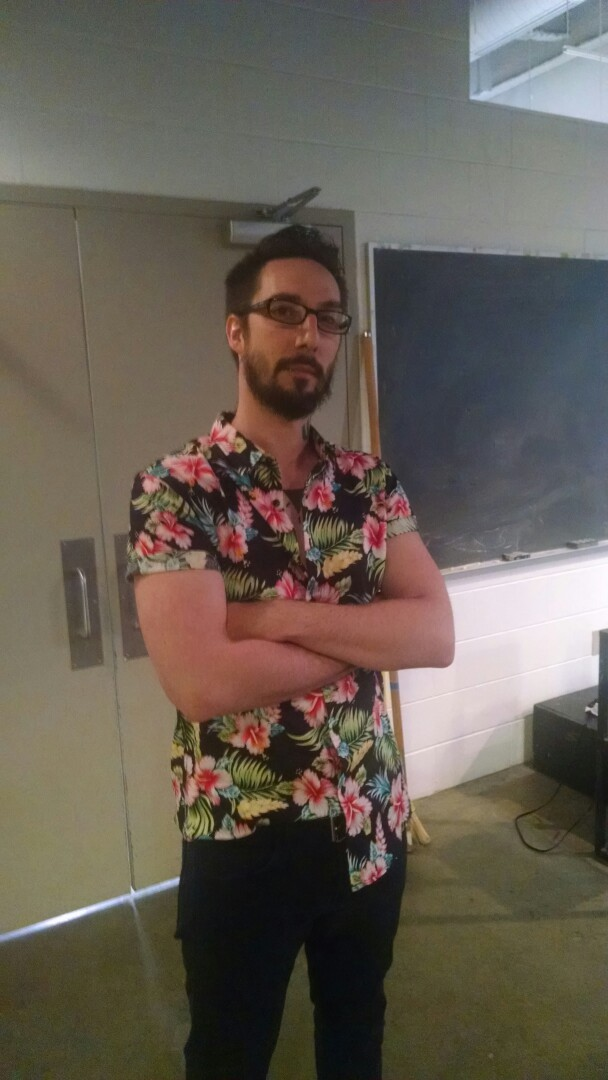 The artist Bastien Lecouff wearing a Hawaiian shirt during one of his imaging classes.